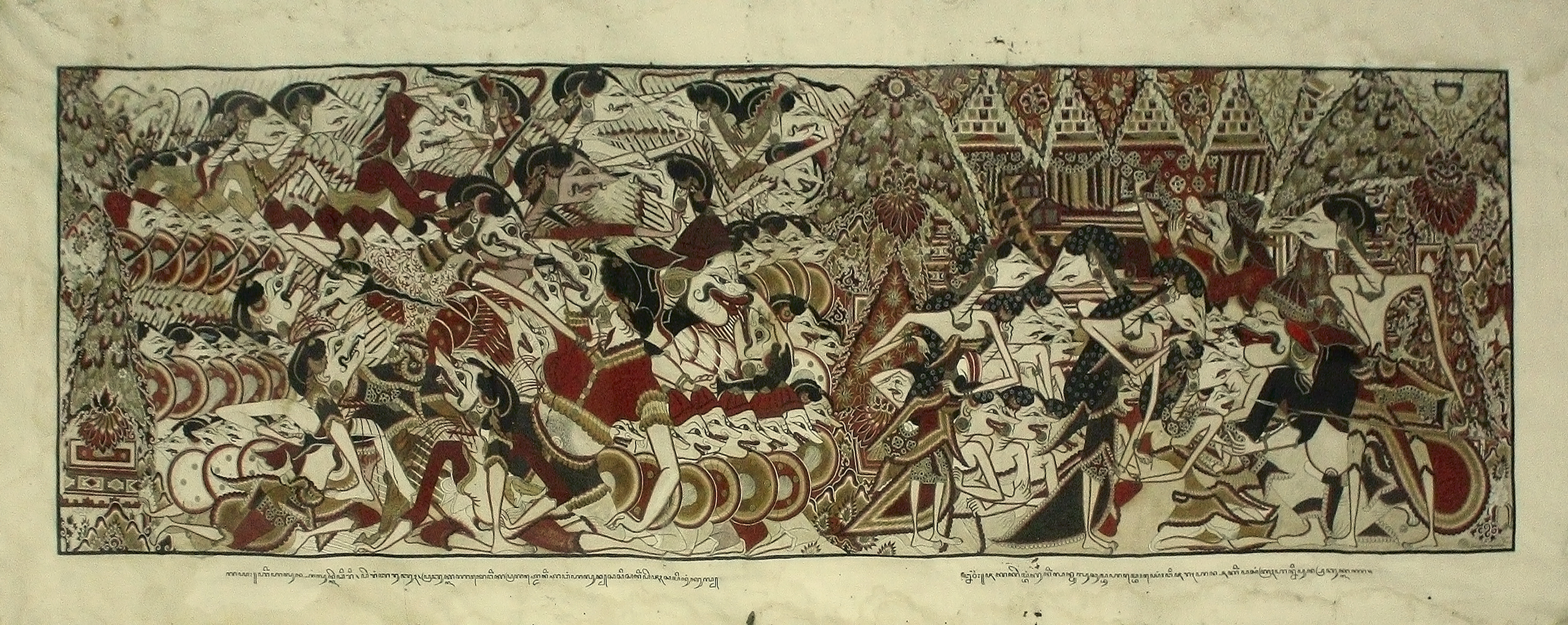 Wayang Beber (screen wayang) drawed upon fabric or paper and scrolled to depict the battle scene of a wayang story. Mangkunegaran Palace, Surakarta, Central Java, Indonesia.